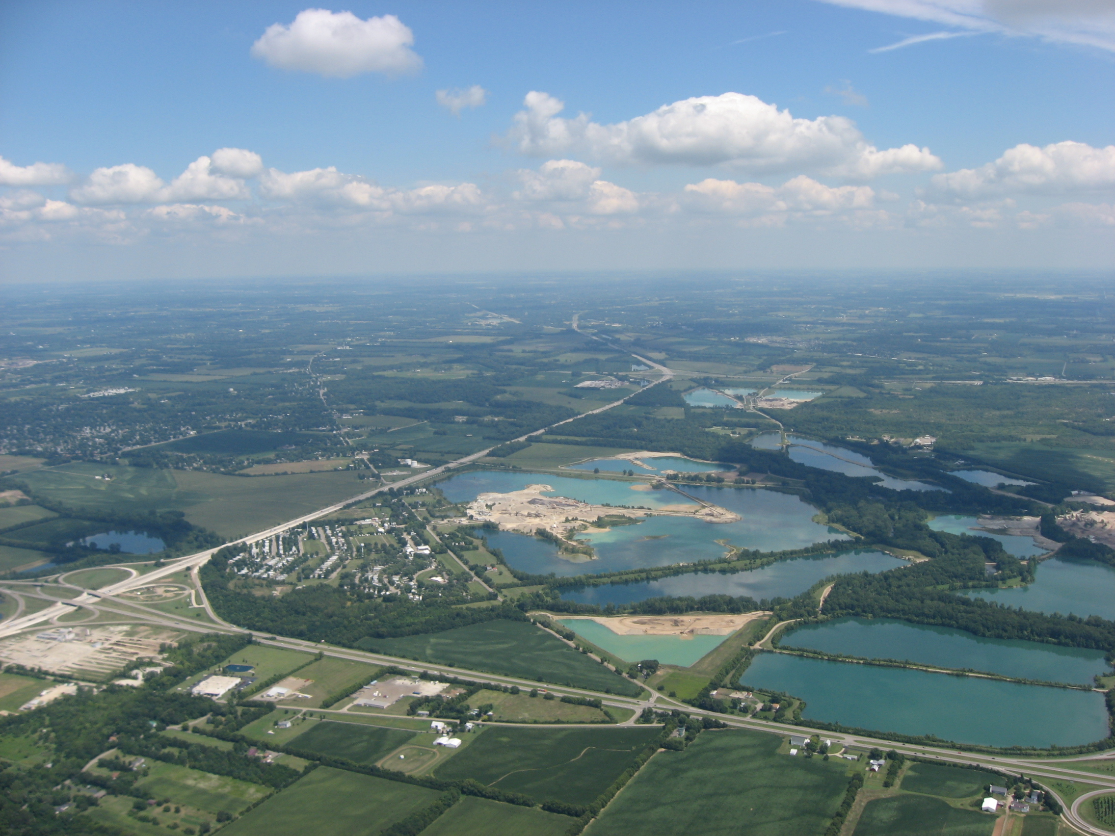 Aerial view of far southwestern Bethel Township, Clark County, Ohio, United States. Picture taken from a Diamond Eclipse light airplane at an altitude of 4,550 feet MSL and a bearing of approximately 213º.